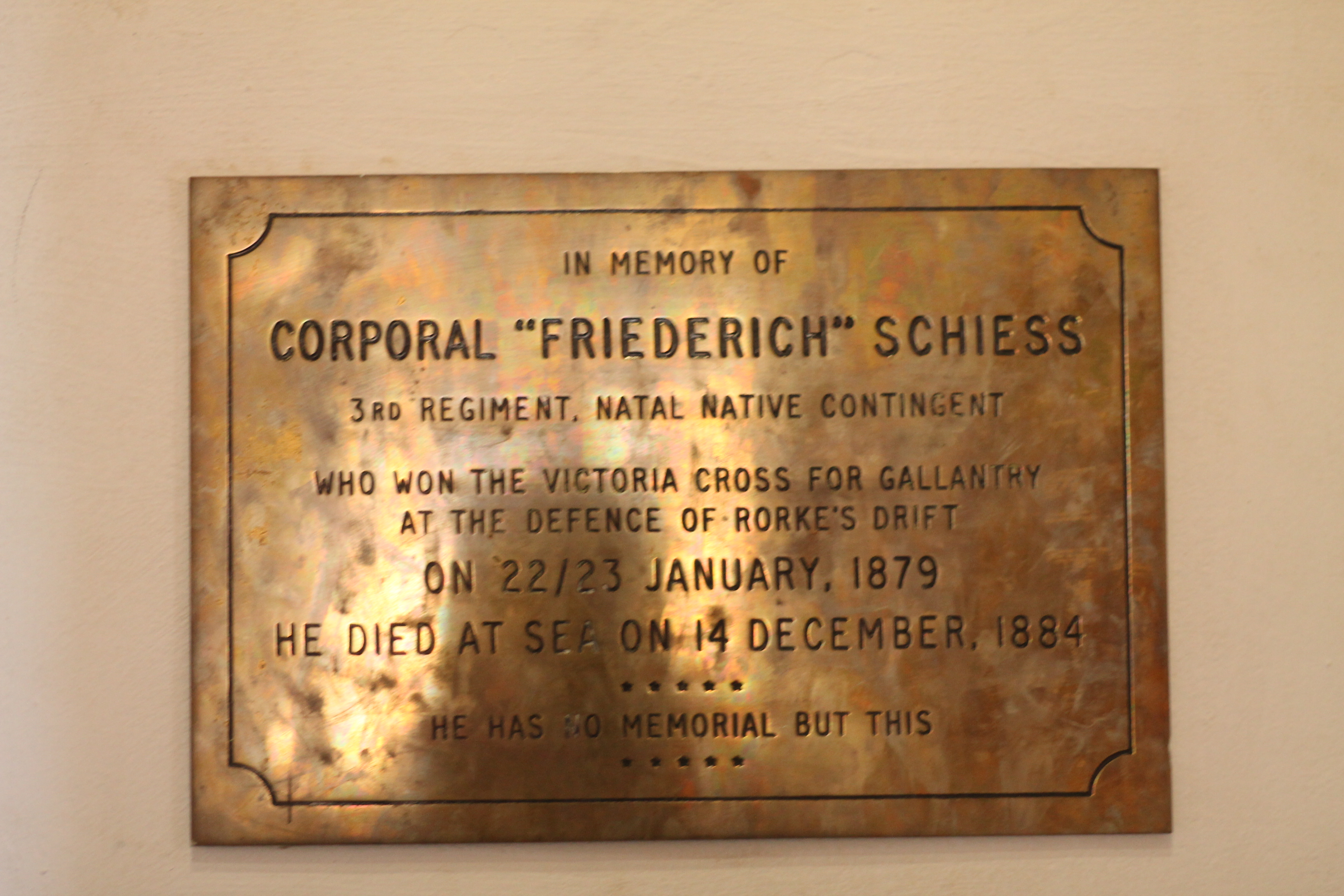 Corporal Friederich Schiess, VC, Natal Native Contingent, Won the VC for Gallantry at the defence of Rorkes' Drift on the 22/23 January 1879. He died at sea on the 14th December 1884. He has no memorial but this. This media shows a South African Protected Site with SAHRA file reference 9/2/406/0006.